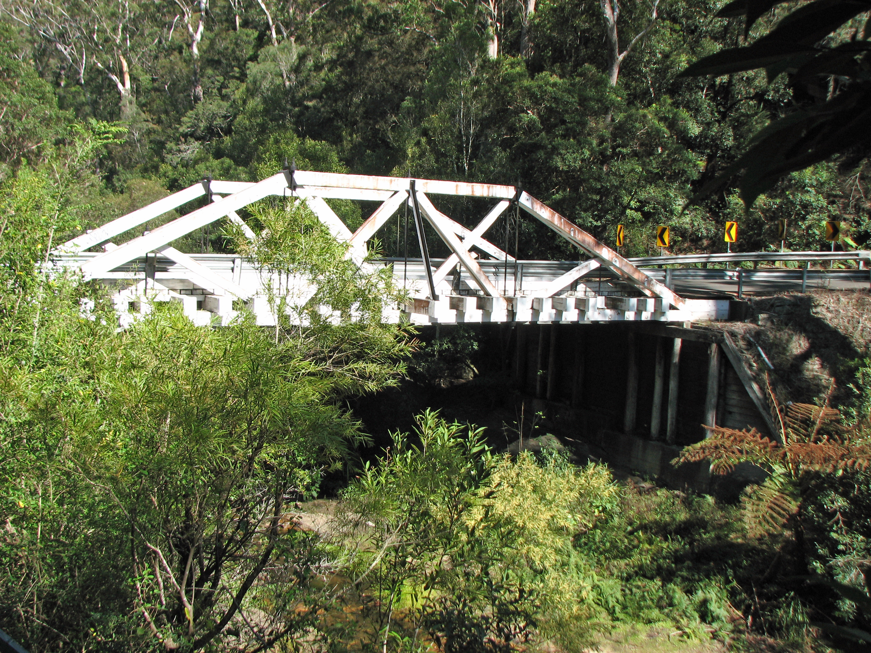 The bridge spans Tunks Creek at the bottom of Galston Gorge. The road through the gorge provides a link between Hornsby Heights and Galston, suburbs of Sydney.